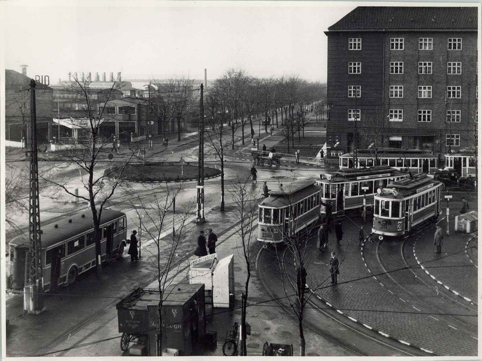 Toftegårds Plads with the turning loop for trams and the roundabout for cars in Valby, Copenhagen, Denmark